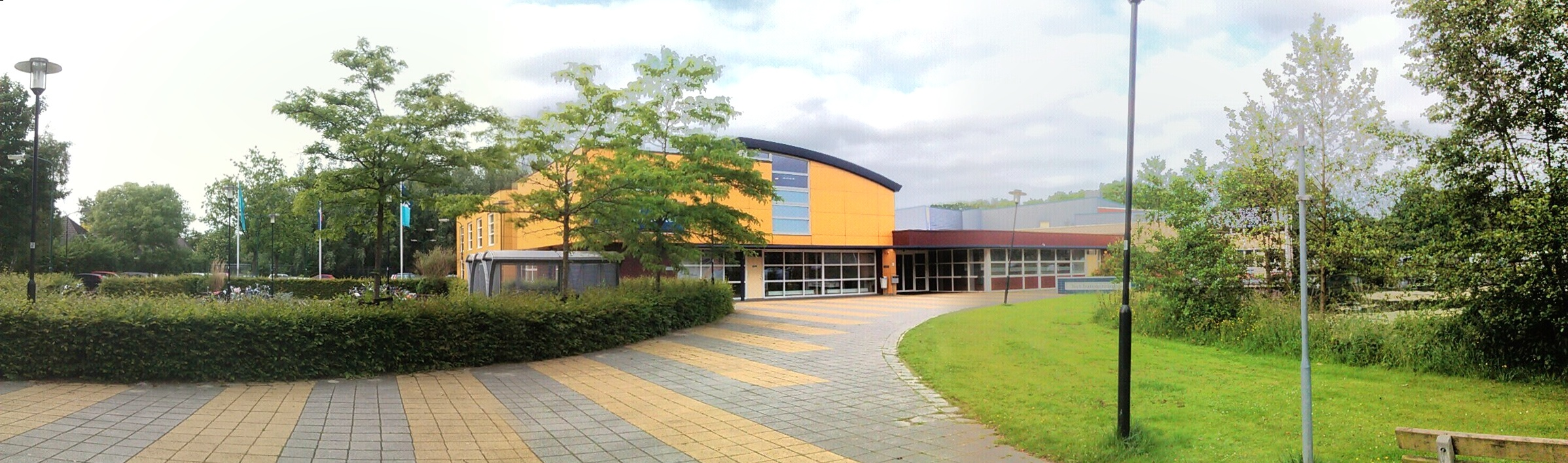 Entrance Batensteinbad Woerden created with app PANO on my android phone